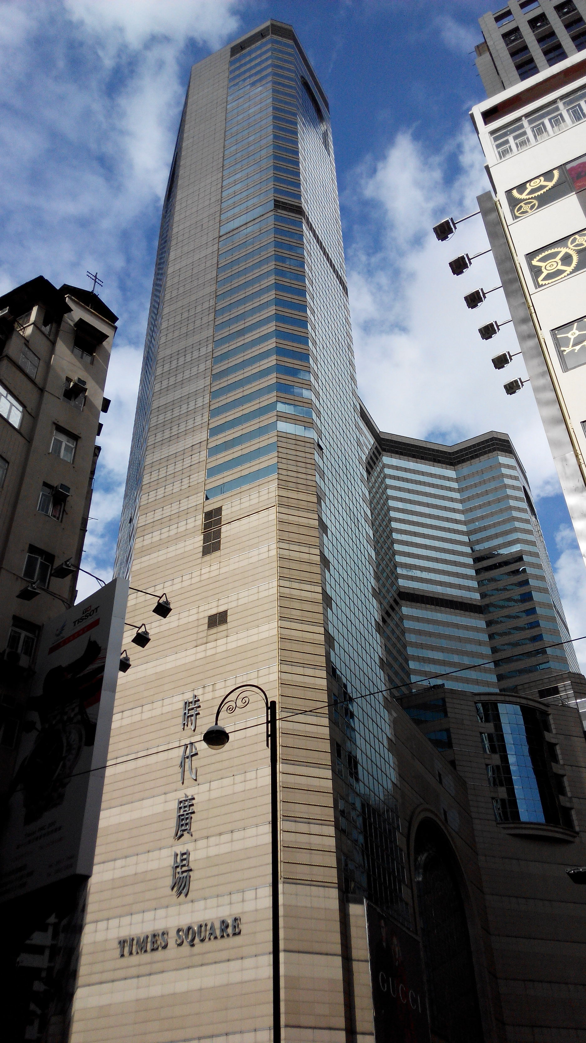 銅鑼灣羅素街, Russell Street, 香港時代廣場 Times Square, Causeway Bay, Hong Kong